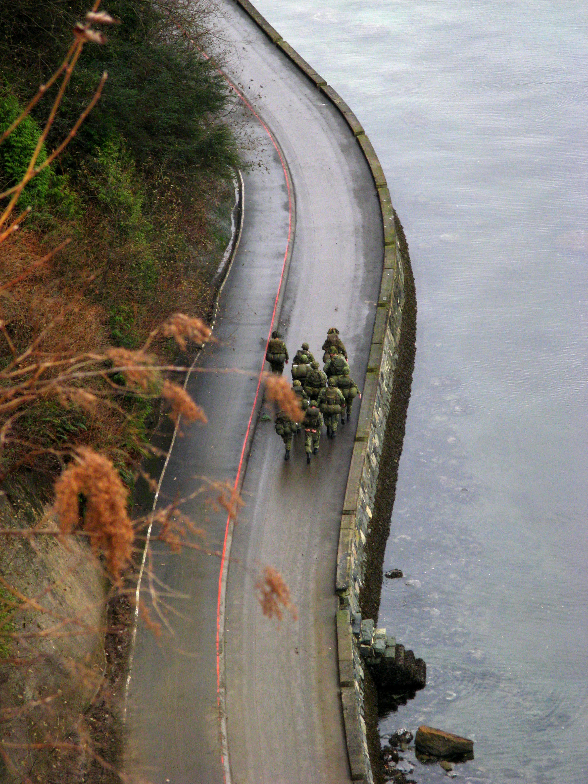 Seawall in Stanley Park, Vancouver, Canada. Taken by me, 7 December 2006.